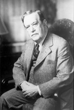 The source of this file is the United States Senate Historical Office. I got permission (to post this photo on Wikipedia) over the phone, in person, from Ms. Heather Moore, the current United States Senate Photo Historian (as of 02/2006). Ms. Moore can be reached at 202-224-6900. The URL contact page for Ms. Moore is Ms. Moore said that the photo is in the public domain, but that credit for the photo does need to be posted as "credited to the U.S. Senate Historical Office." The URL where this photo was retrieved from is